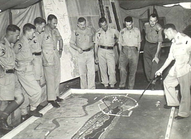 AWM Caption: MALANDA, QLD. 1944-03-11. THE GENERAL OFFICER COMMANDING, 6TH DIVISION, VX17 MAJOR GENERAL J.E. STEVENS, DSO, ED., DISCUSSING "DOUGLAS EXERCISE" WITH HIS STAFF AROUND A SAND TABLE AT THE 6TH DIVISION HEADQUARTERS. SHOWN ARE:- VX17 MAJOR GENERAL J.E.S. STEVENS, DSO, ED., (1); NX2654 MAJOR I.B. FERGUSON (2); NX12447 CAPTAIN A.C. PEPPER (3); VX6575 CAPTAIN H.H. PINNIGER (4); VX35 LIEUTENANT COLONEL J.A. BISHOP, DSO, MBE., (5); NX354 LIEUTENANT COLONEL W.C. MURPHY (6); VX34525 CAPTAIN C.M.Y. THOMPSON (7); VX59888 MAJOR F.P. SERONG (8); VX3958 CAPTAIN D.M. MACRAE (9).